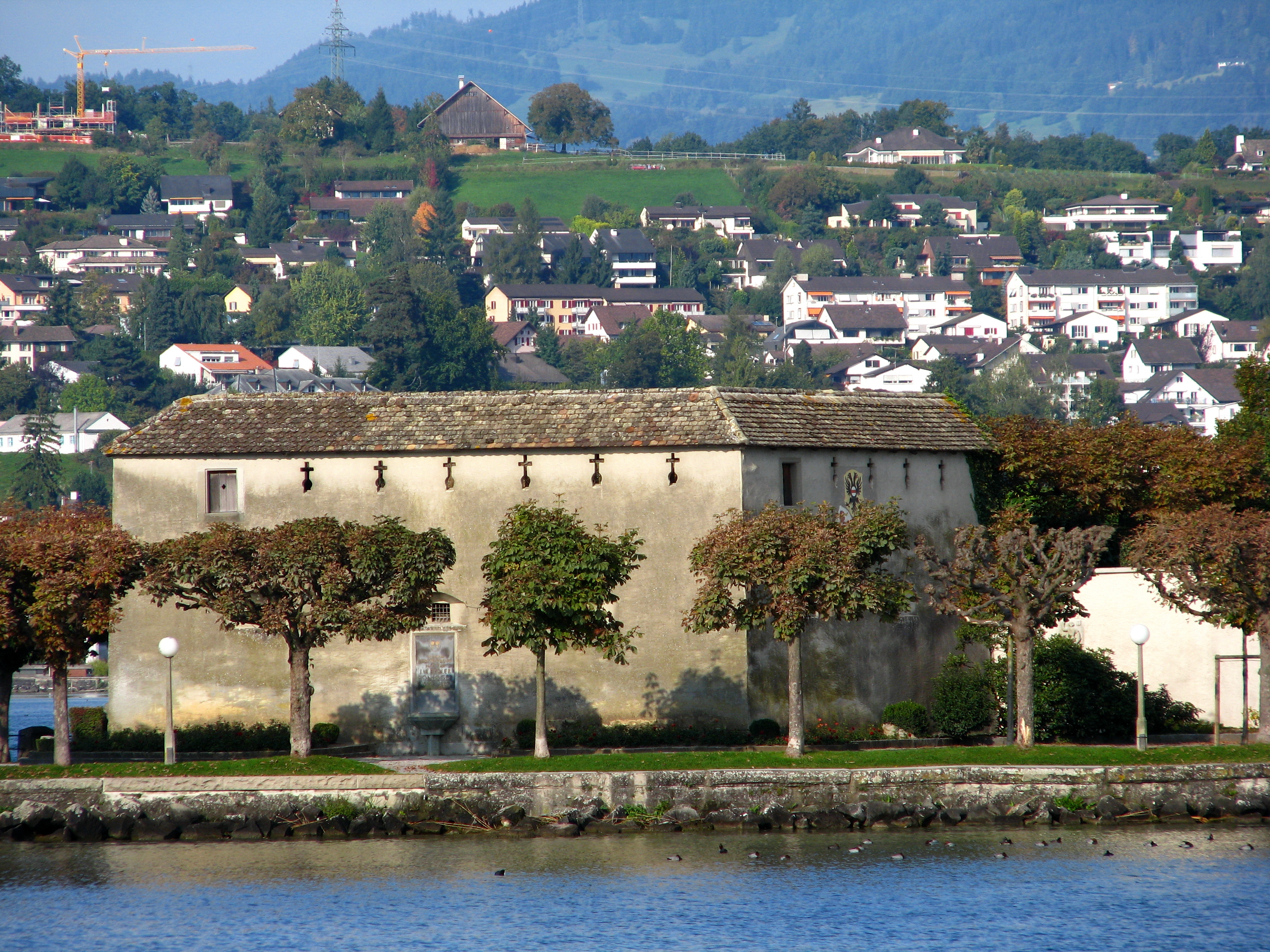 Fortifications at Endingerhorn in Rapperswil (SG), Kempraten in the background.